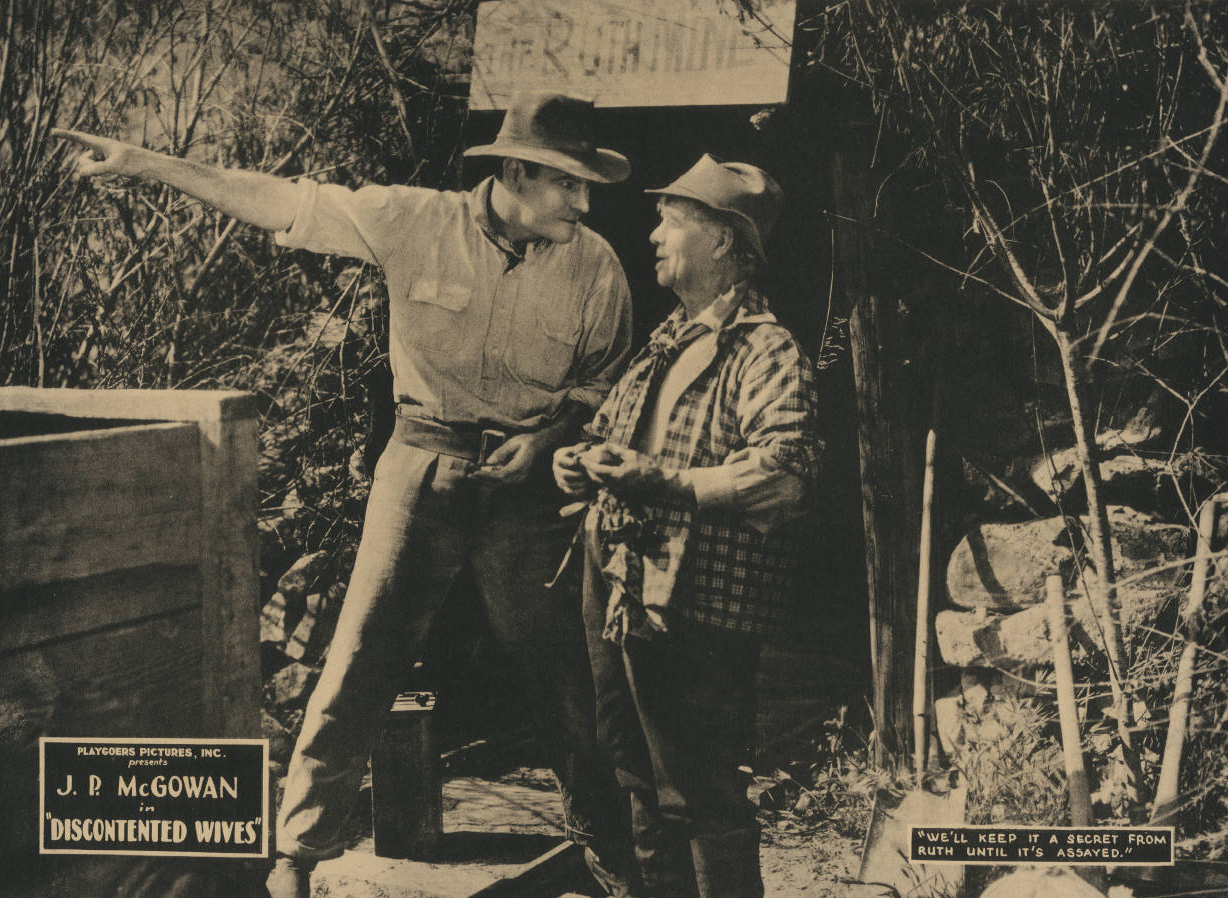 Playgoers Pictures, Inc. presents the American drama film Discontented Wives (1921) with J. P. McGowan and Andrew Waldron. Caption: "We'll keep it a secret from Ruth until it's assayed." Lobby card, approx. 28 x 35.5 cm.